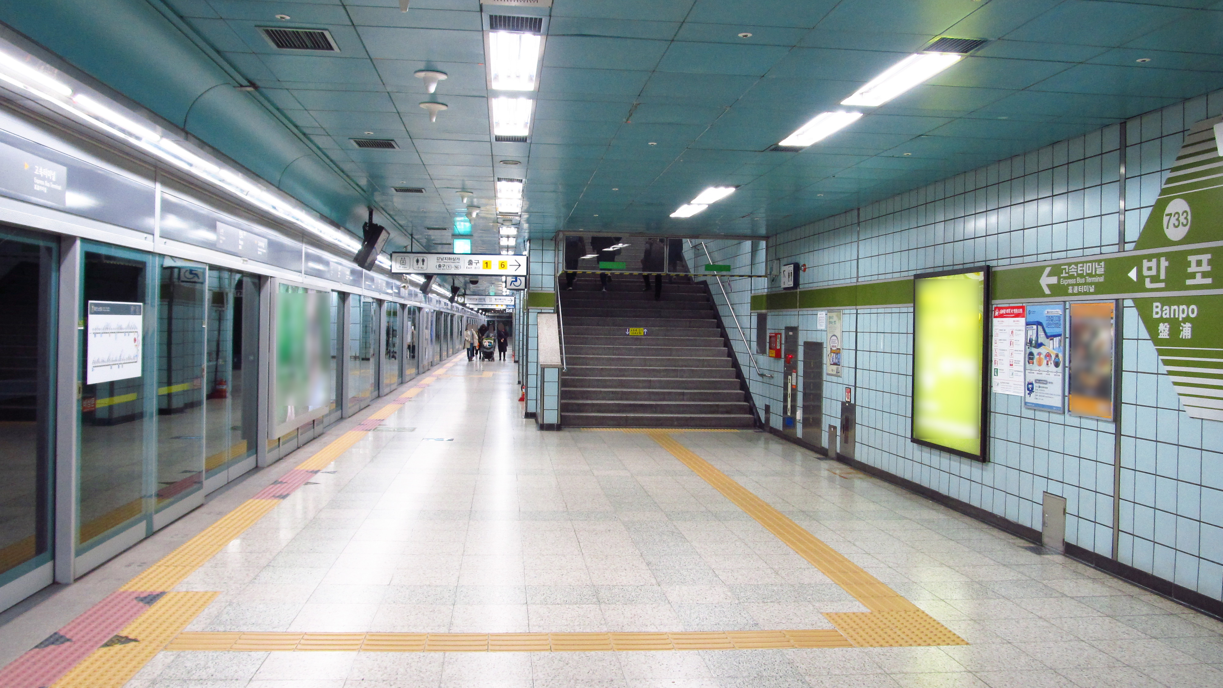 The platform at Banpo Station on Seoul Subway Line 7 in Seocho-gu, Seoul, Republic of Korea(South Korea)